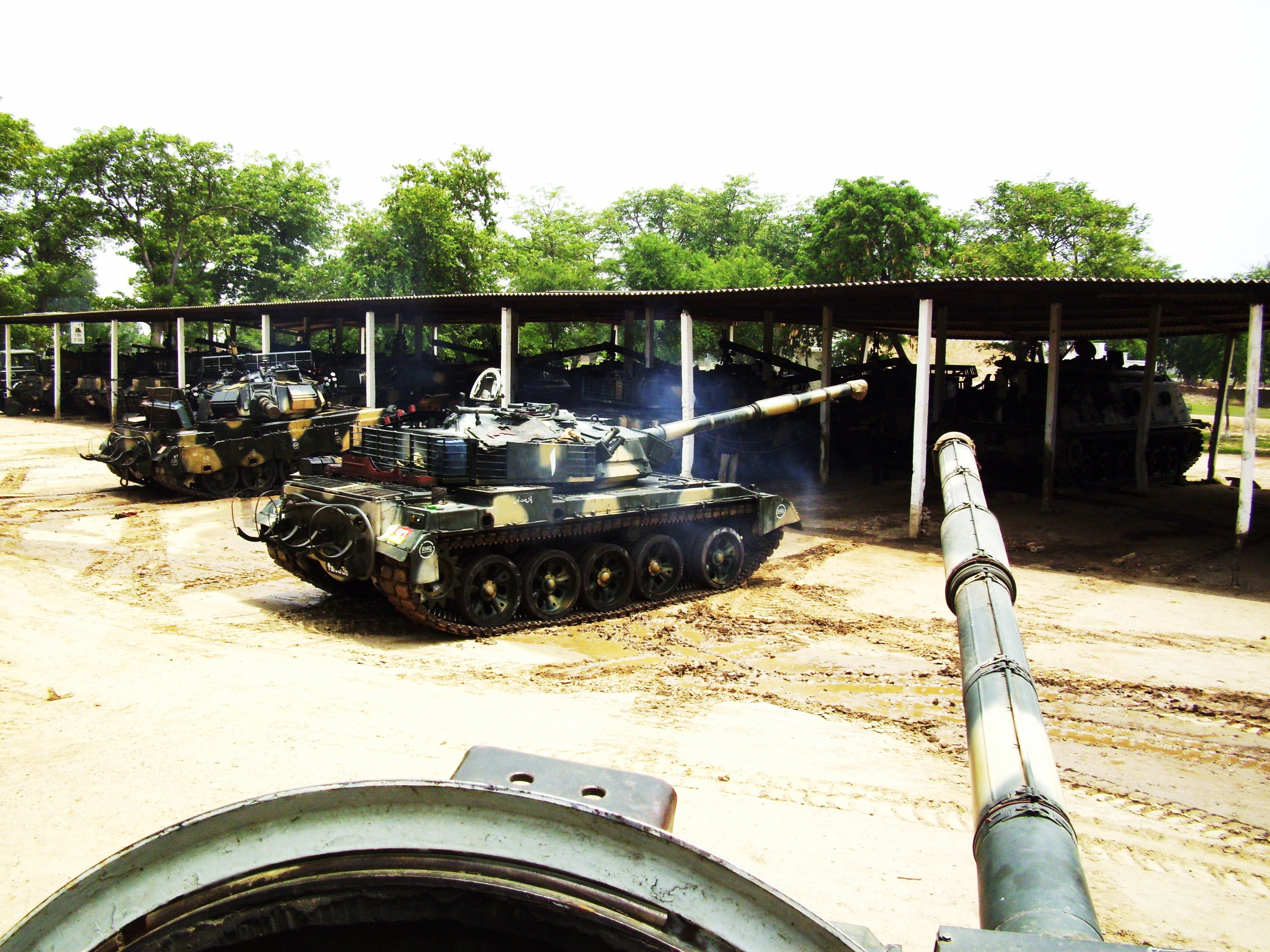 Al zarar compound at 27 Cav Khariyan